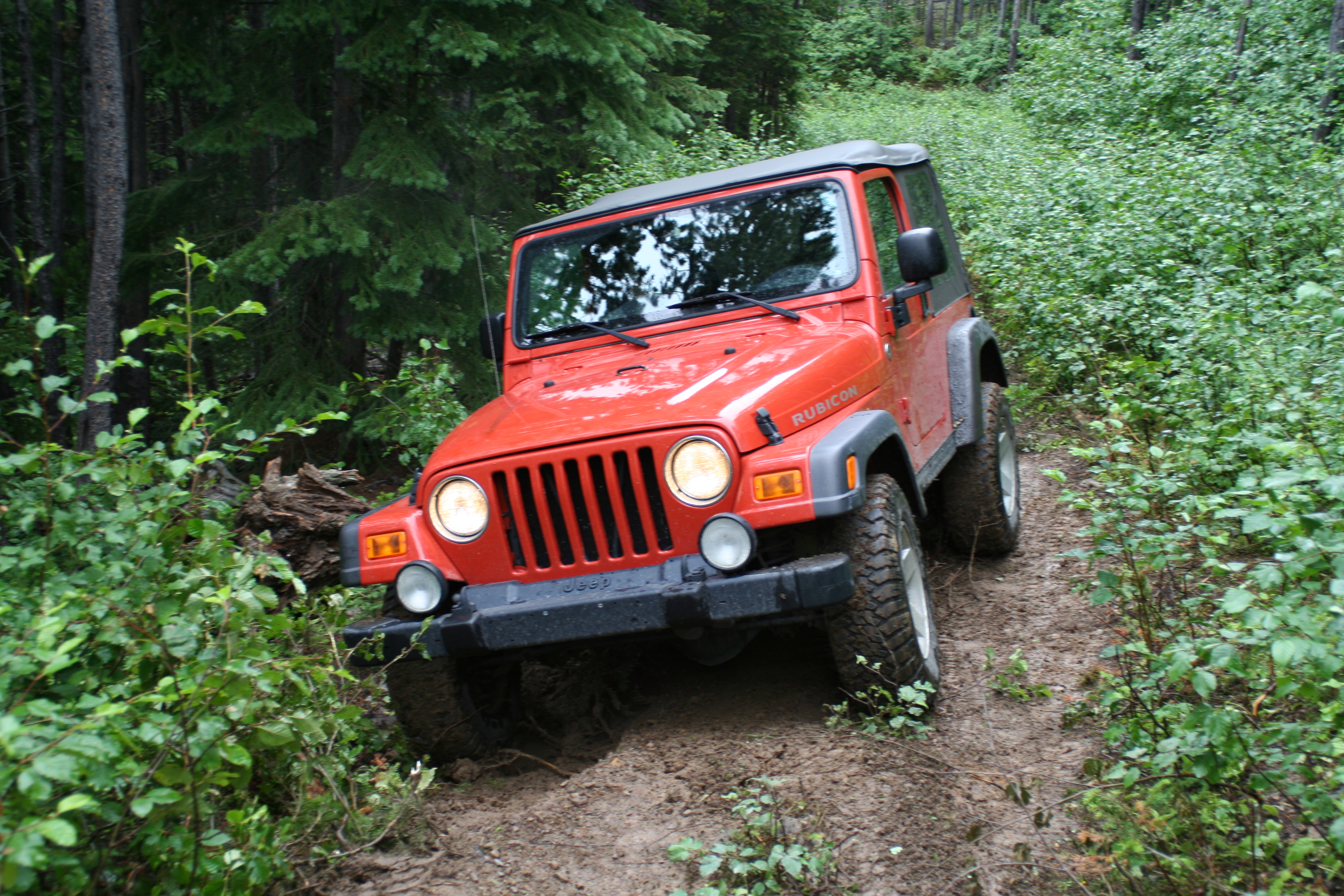 Photographer: Lance Semak (Uploader) Image free for use